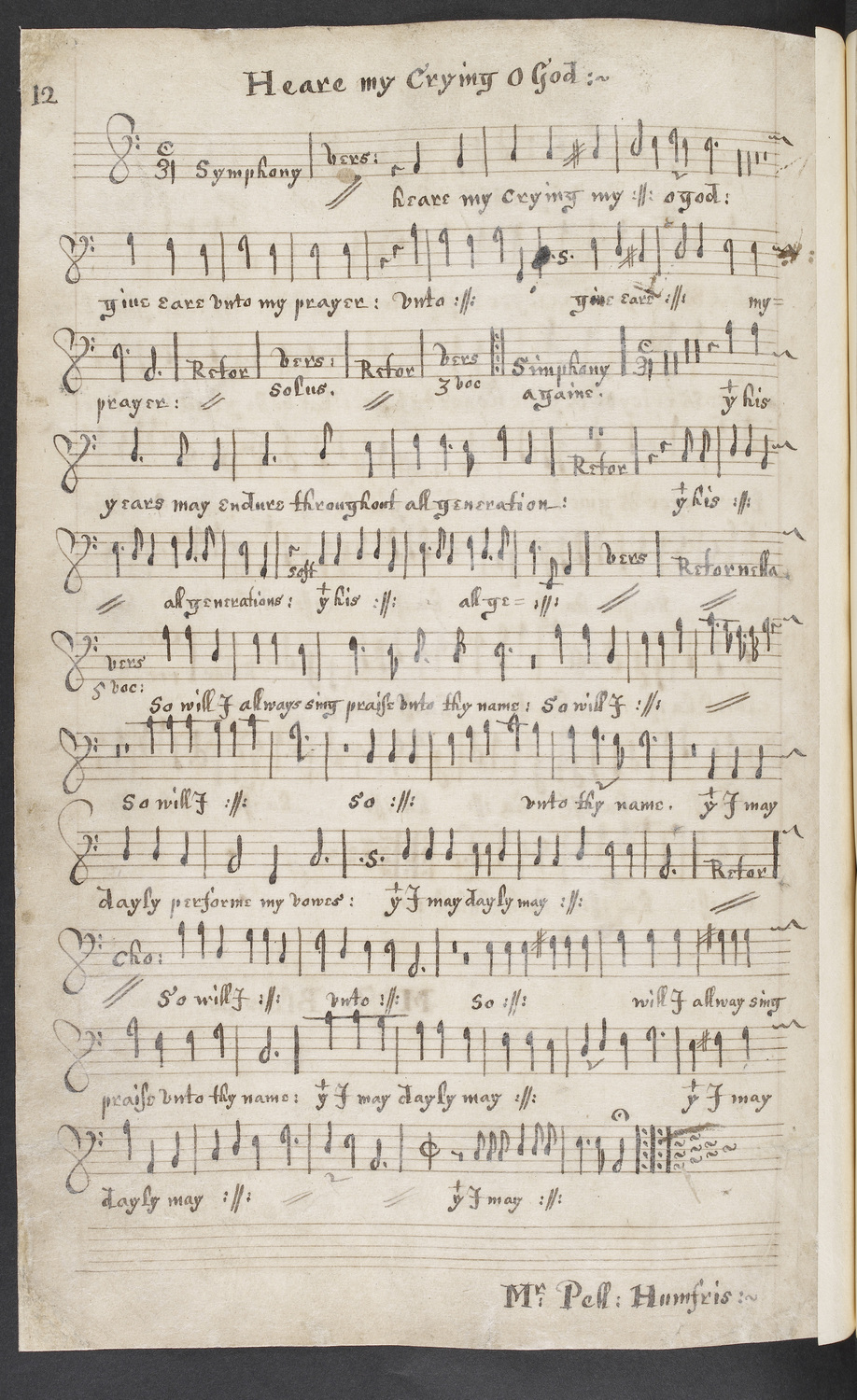 Hear my crying O God. In the hand of William Tucker.